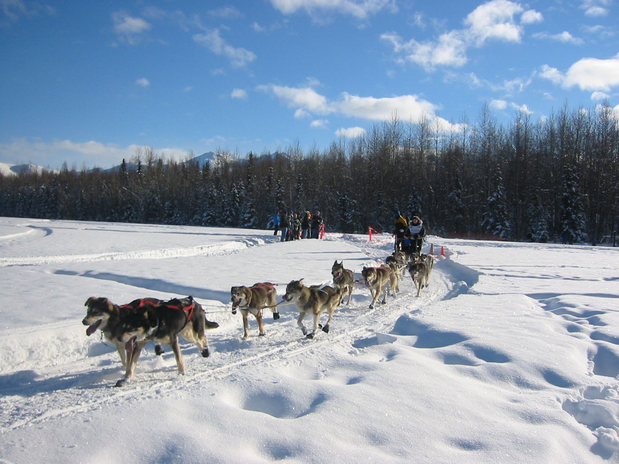 The Iditarod National Historic Trail commemorates a 2,300-mile system of winter trails that first connected ancient Native Alaskan villages, opened up Alaska for the last great American gold rush, and now plays a vital role for travel and recreation in modern day Alaska. Over 1,500 miles of the historic winter trail system are open today for public use across state and federal lands. The Bureau of Land Management, under the National Trails Act, is the designated Trail Administrator, and works to coordinate efforts by federal and state agencies on behalf of the entire Trail. BLM maintains about 150 miles of the Trail, including four public shelter cabins. The remainder is managed primarily by the State of Alaska, or crosses private Native lands on public easements. View more information about the Iditarod NHT: Photo: Bob Wick, BLM California